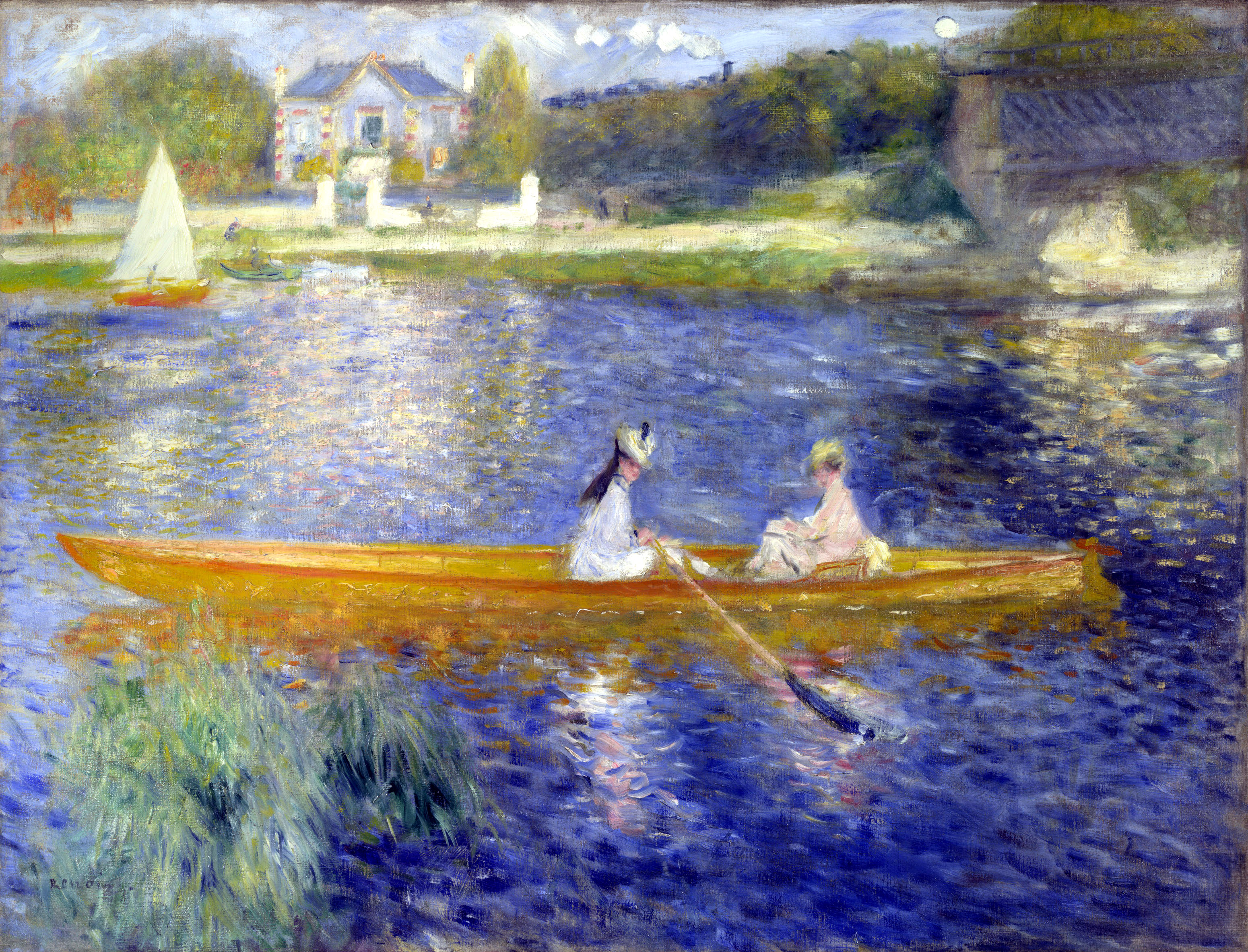 The Skiff (La Yole)